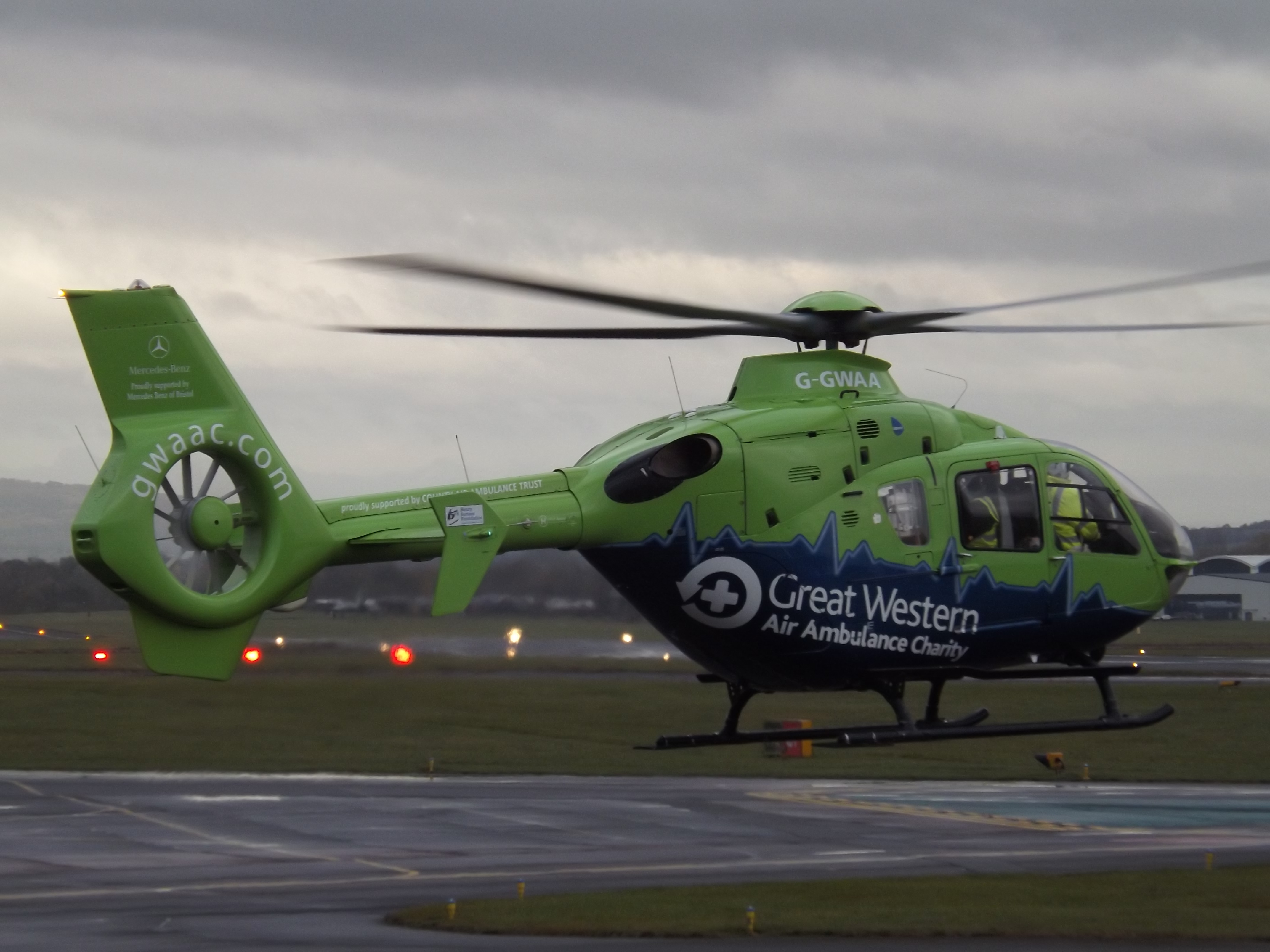 At Gloucestershire Airport.